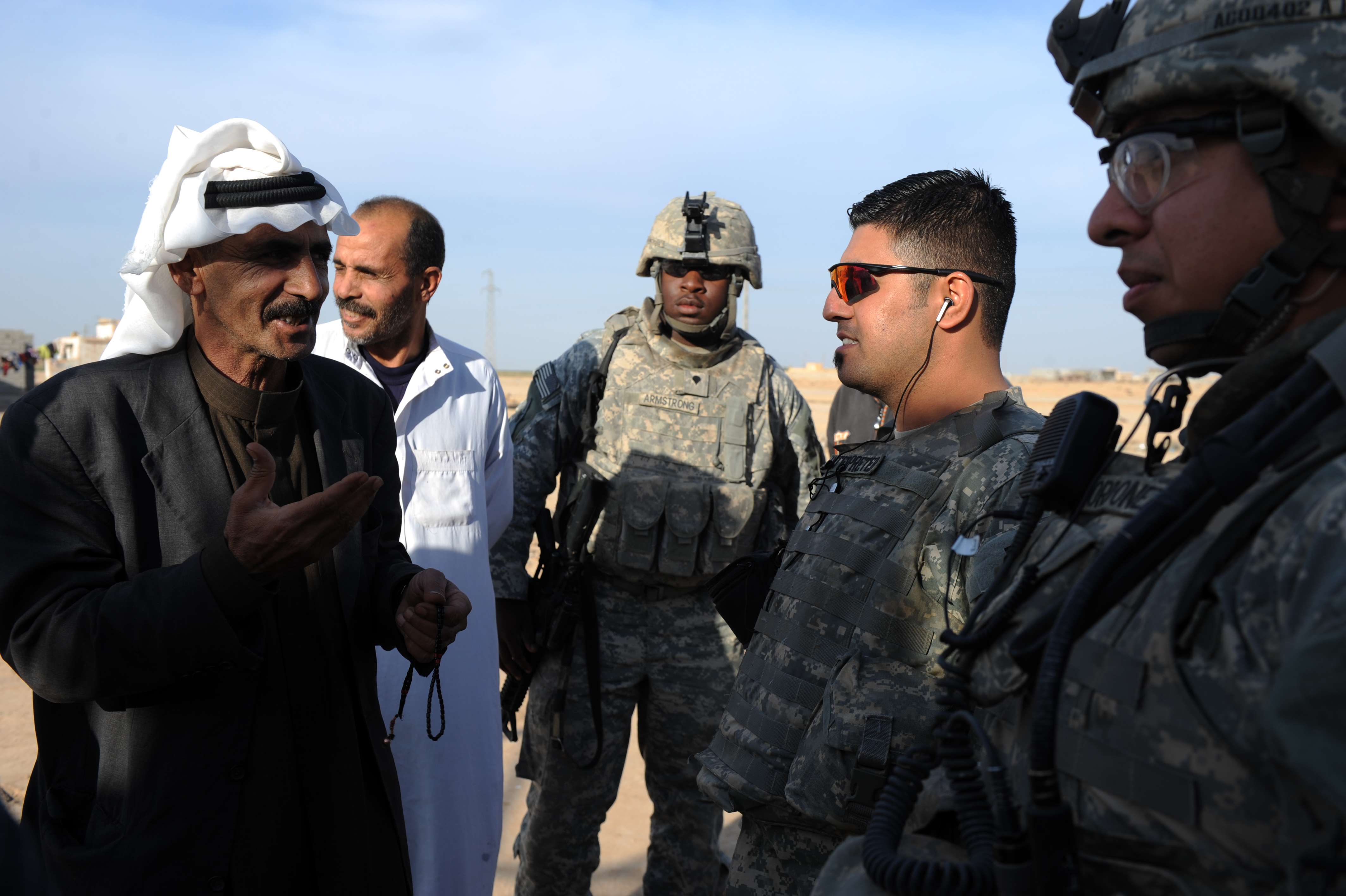 Nayef Ahemed Mobshed, muktar of Rashedai, speaks to U.S. Army 1st Lt. Juan Ordonez, platoon leader, 2nd Platoon, Charlie Company, 1st Brigade, 37th Armor Battalion, 1st Brigade Combat Team, 1st Armored Division, as U.S. Soldiers deliver generators to Reshedai, Iraq, Feb. 25. U.S. Soldiers visited the village to deliver three new generators and pass out a few goodies to children.